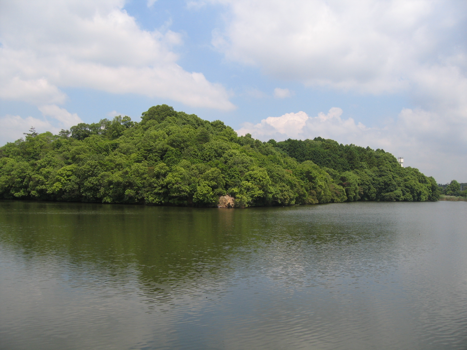 Uwanabe-kofun, tomb of an ancient imperial family member in Japan. Taken by user:pocopen in Nara, japan.